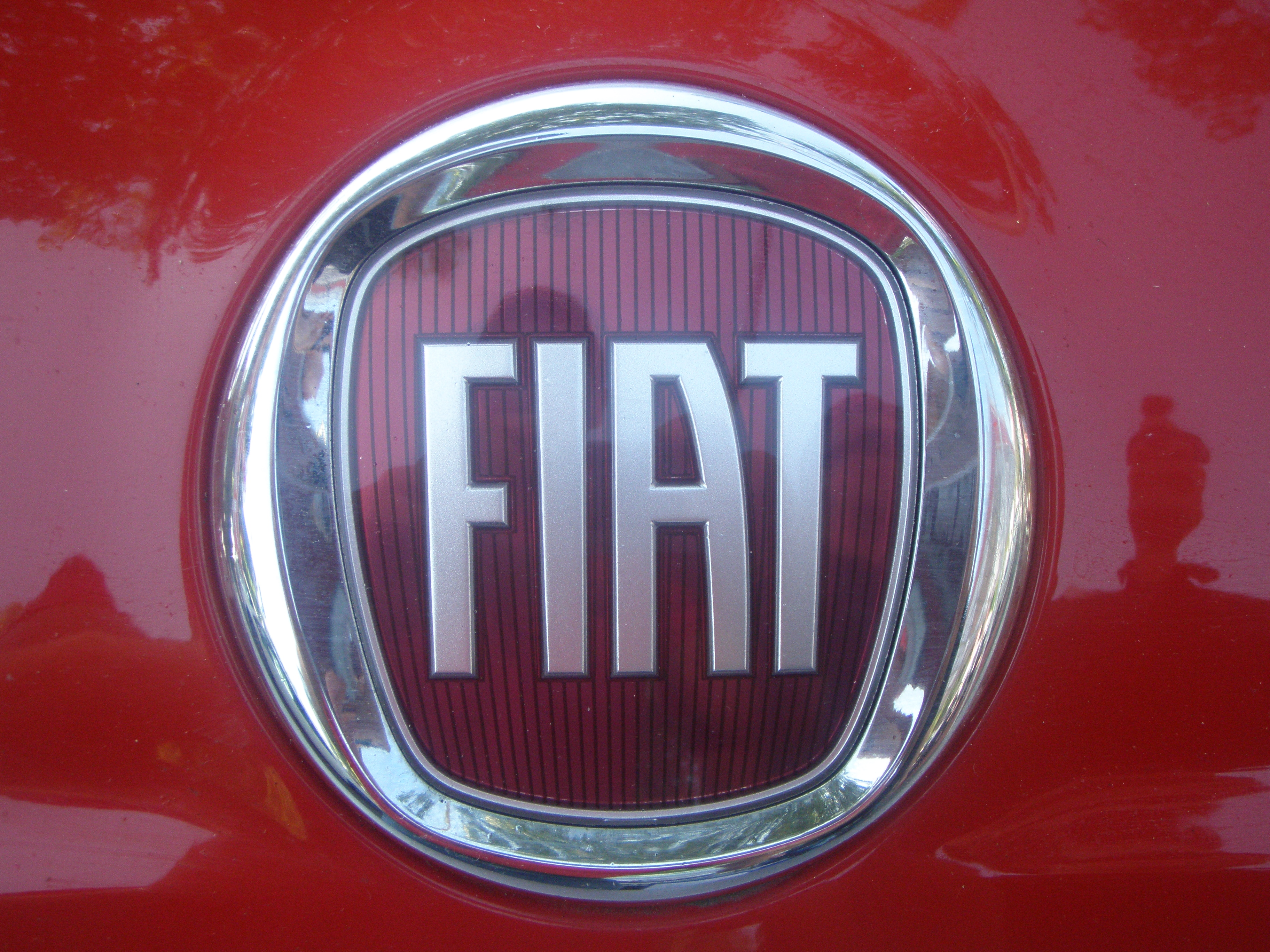 Fiat Logo